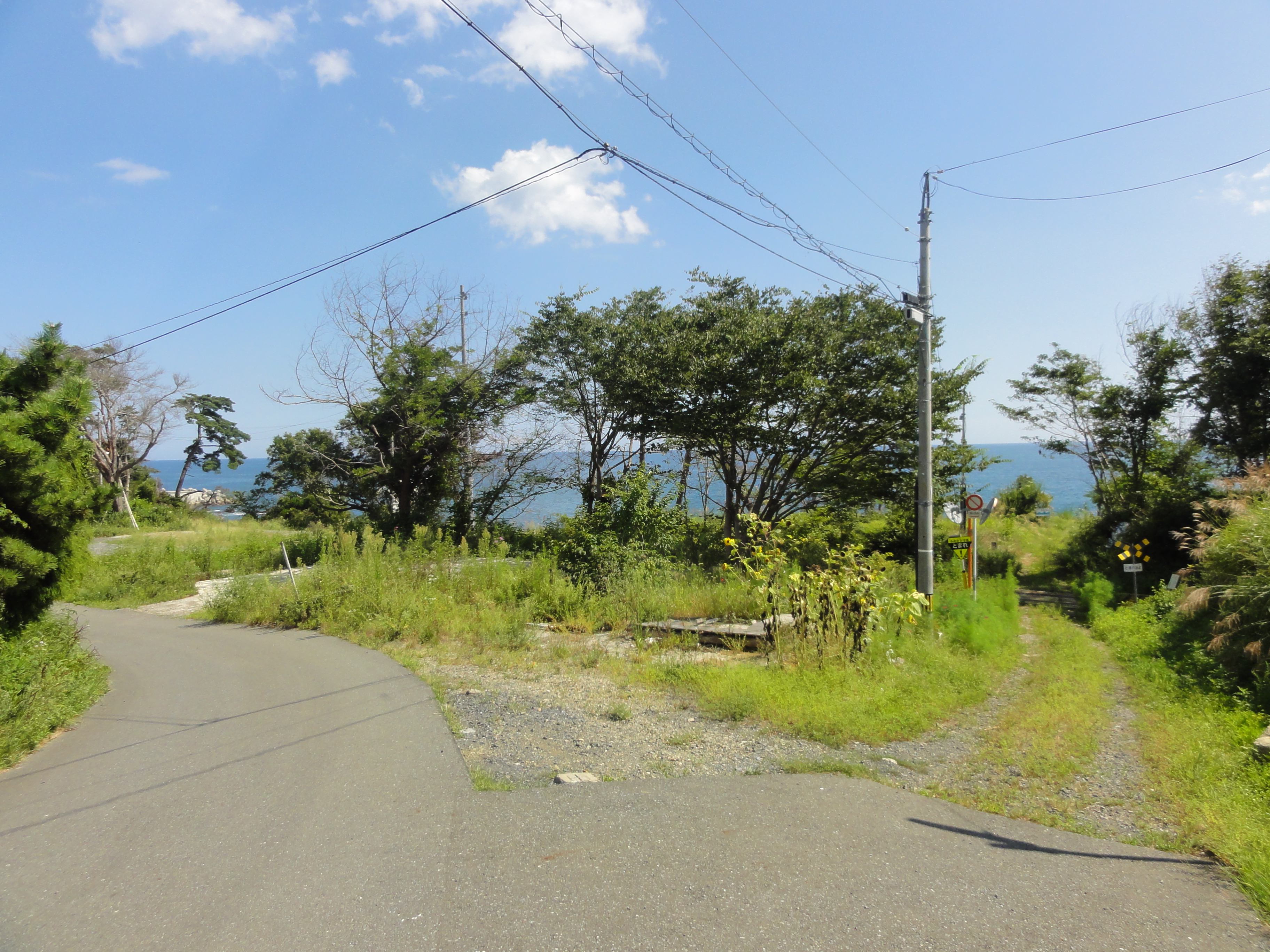 Ruin of Kesennuma Line Koganezawa Station, which have been struck by the tsunami caused by the 2011 Tohoku Earthquake